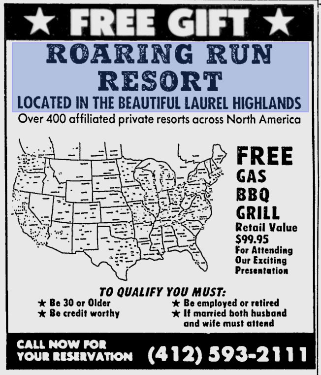 This is a picture of an old newspaper ad for Roaring Run Resort.